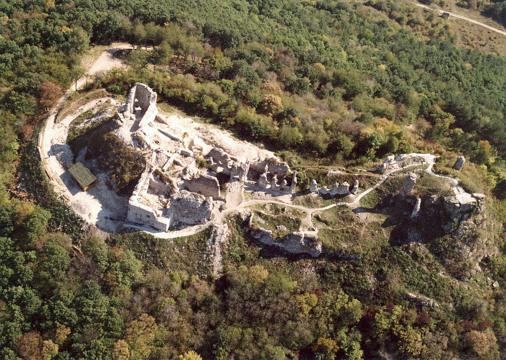 Castle - Regéc - Hungary - Europe, aerial photography